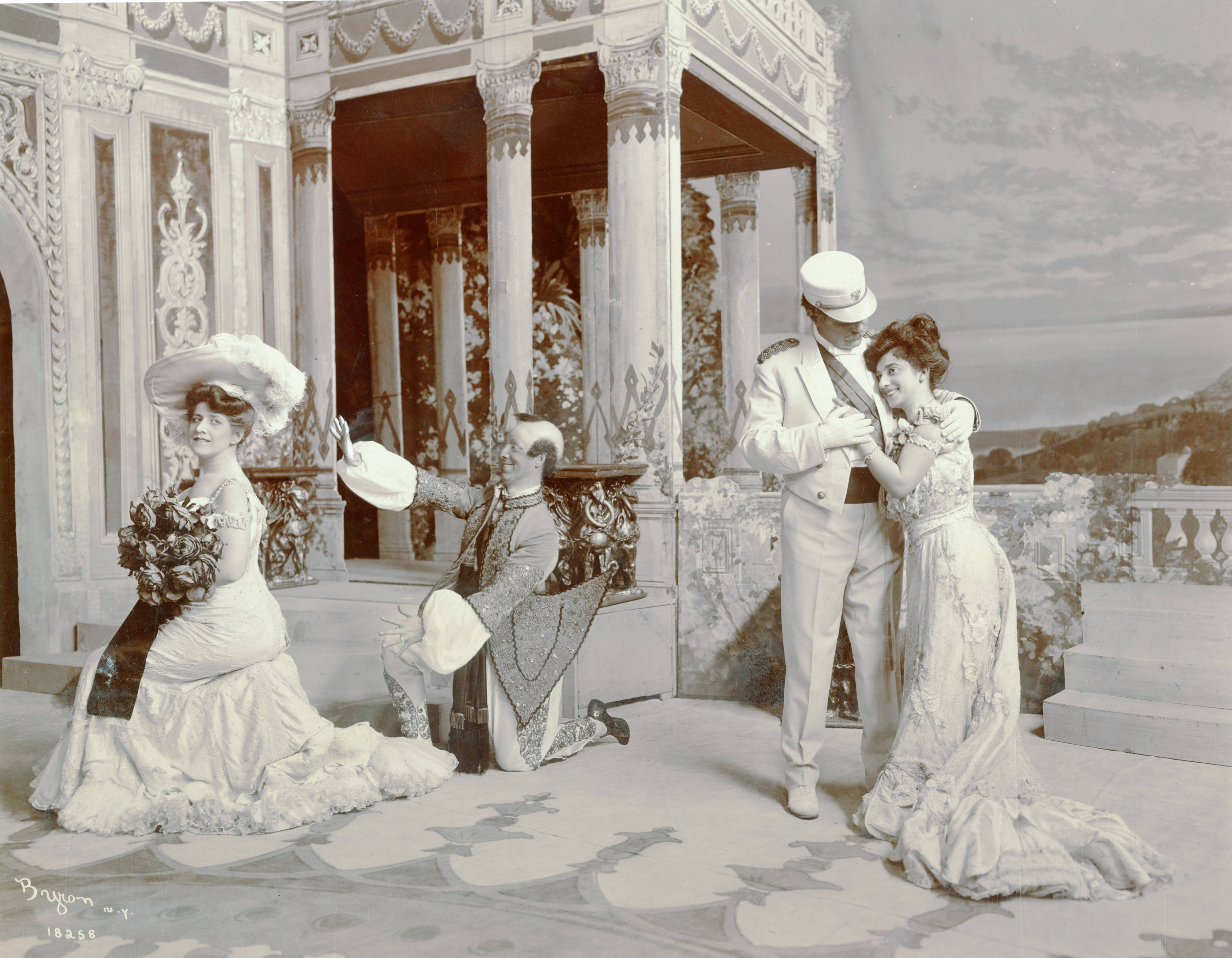 A scene from "The Sultan of Sulu," which opened Jan. 29, 1905, at the Grand Opera House, Seattle. Includes Nellie V. Nichols (right). Subjects: musical revues, comedies, etc., actresses